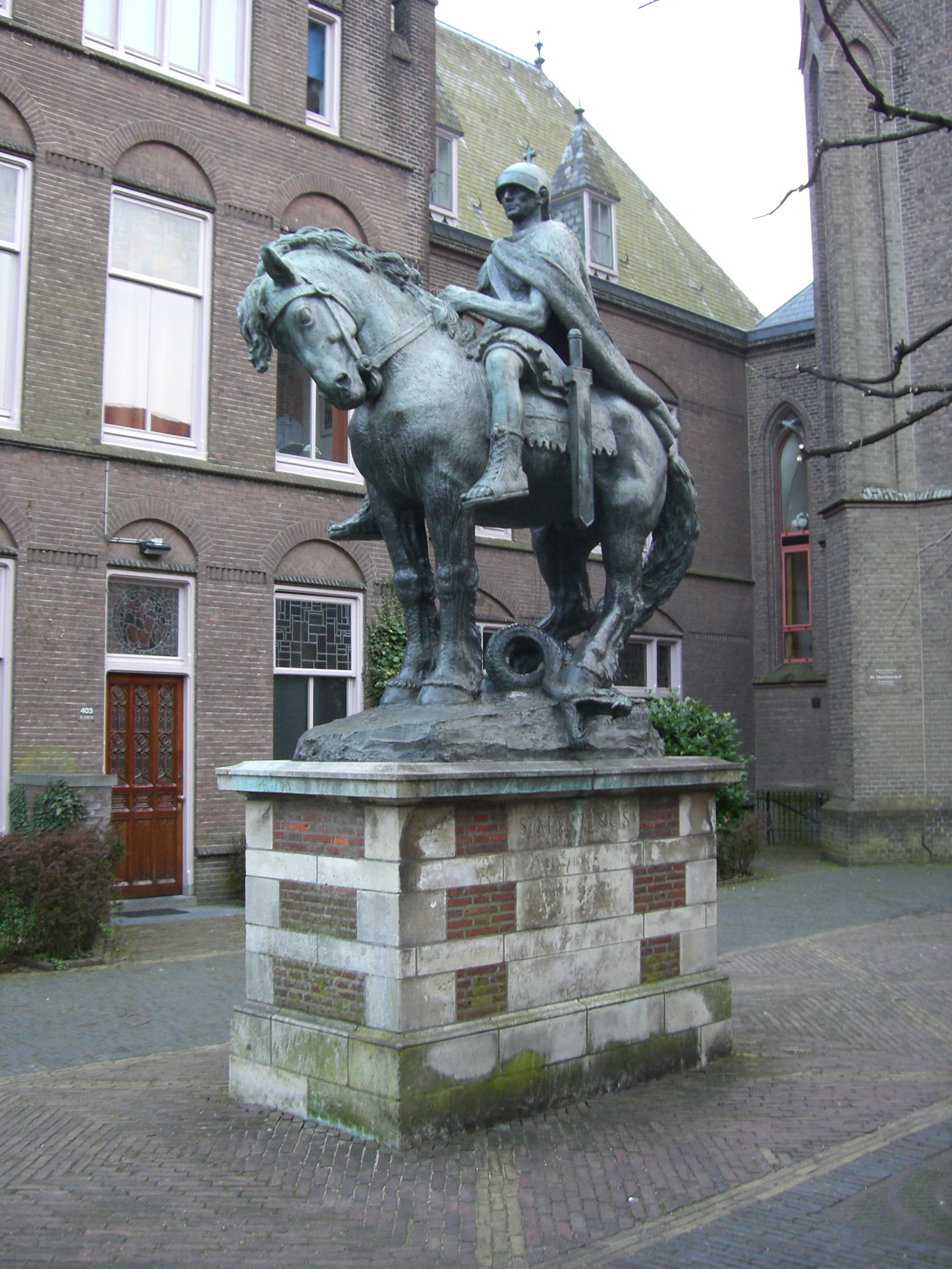 Statue of Saint Martin as a Roman soldier made by Albert Termote in 1948.[1] Martin of Tours is the patron saint of the city of Utrecht, The Netherlands.